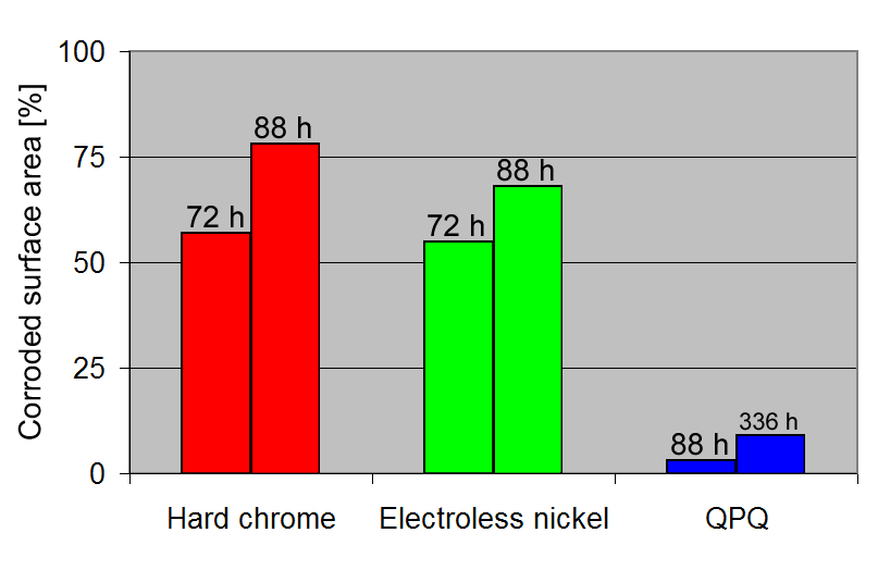 A chart comparing the corrosion resistance of surface treated steel automotive steering columns based on the ASTM B117 salt spray test. Based on chart found at [1].